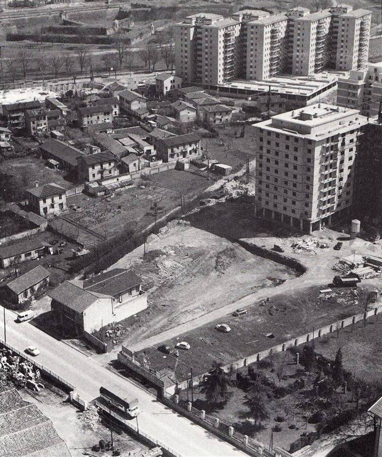 Años 70